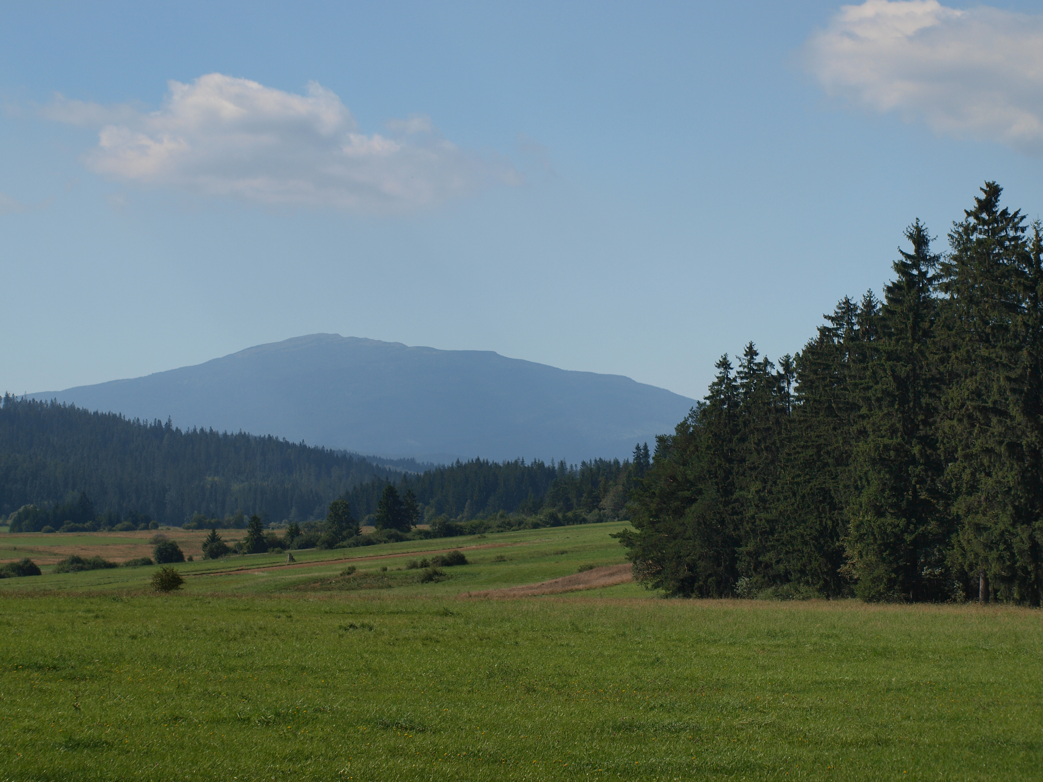 Babia Góra -view from Podwilk